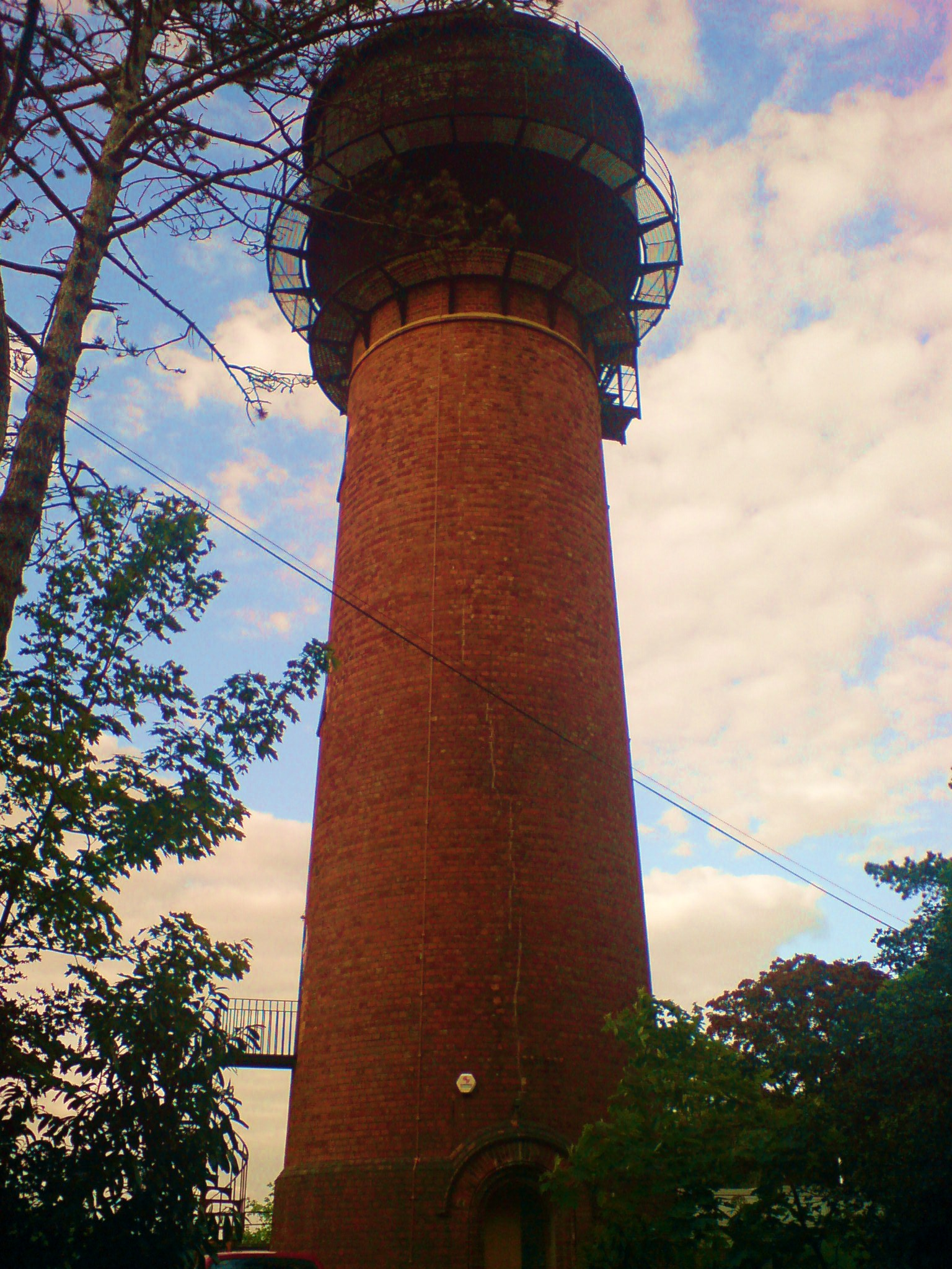 A photo of The Water Tower, Coleshill taken from the road running by